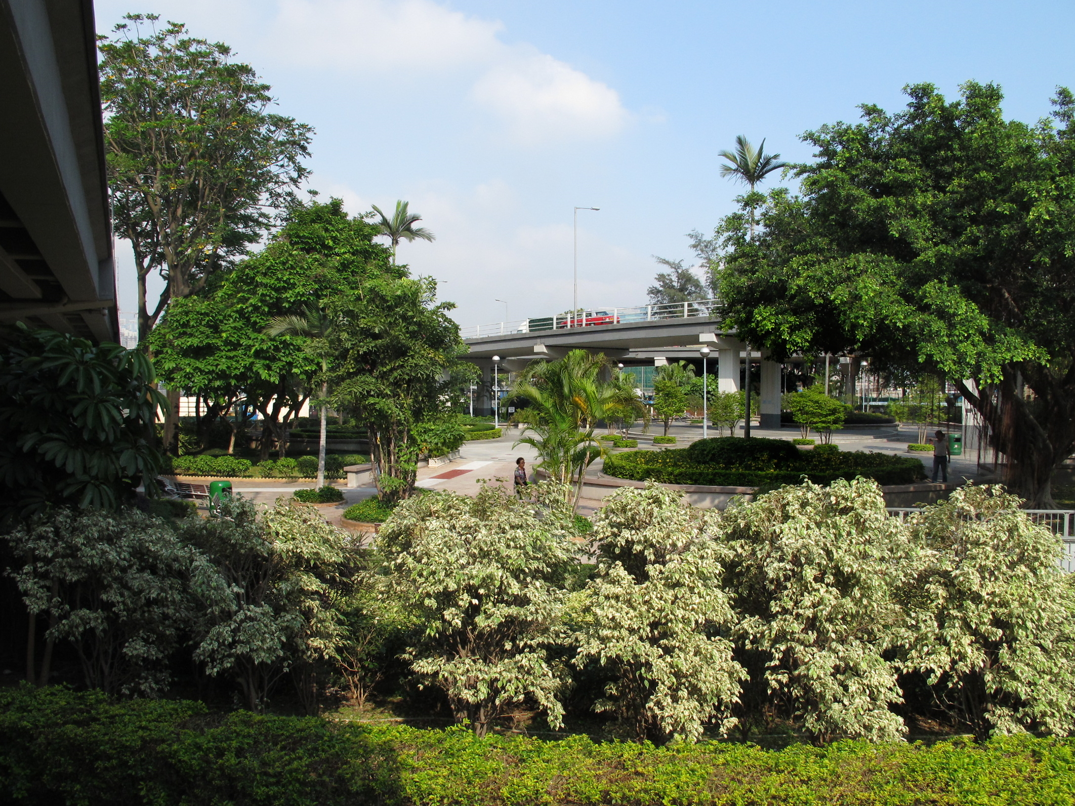 Olympic Garden